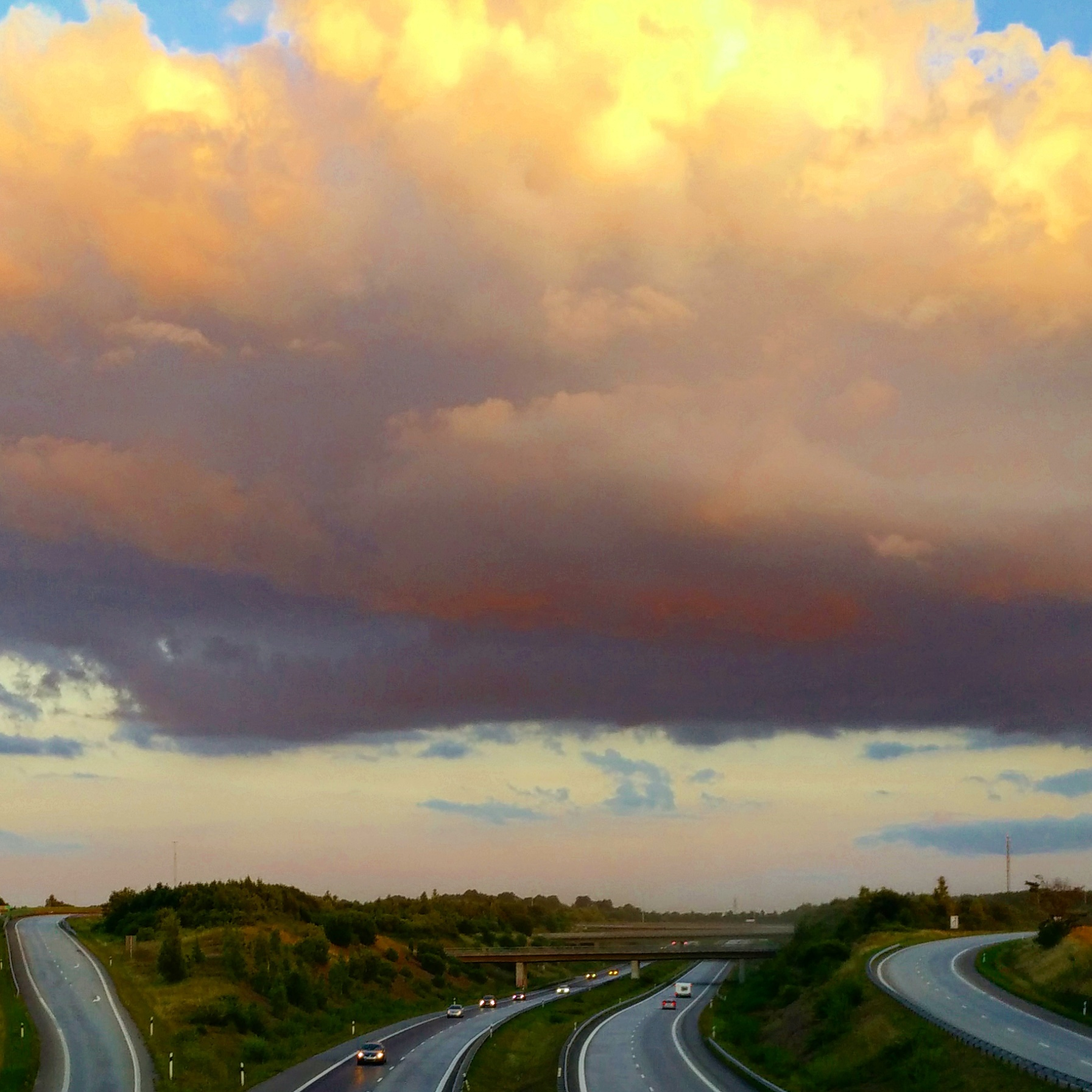 E6/E20 at Trafikplats Alnarp outside Åkarp in Skåne, Sweden.